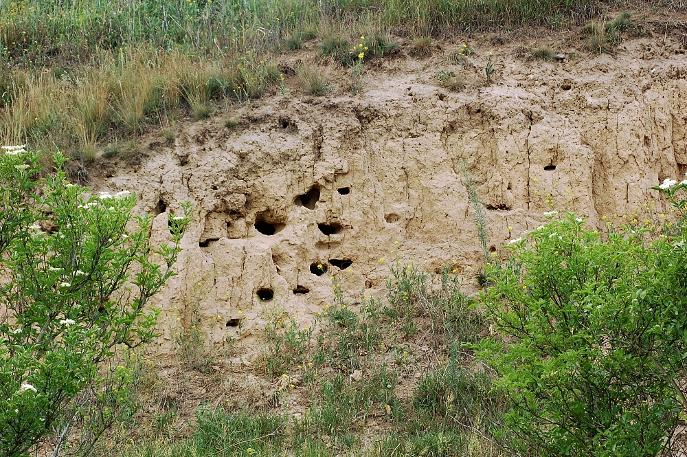 Merops apiaster, Salziger See, Röblingen near Halle/Saale, Germany